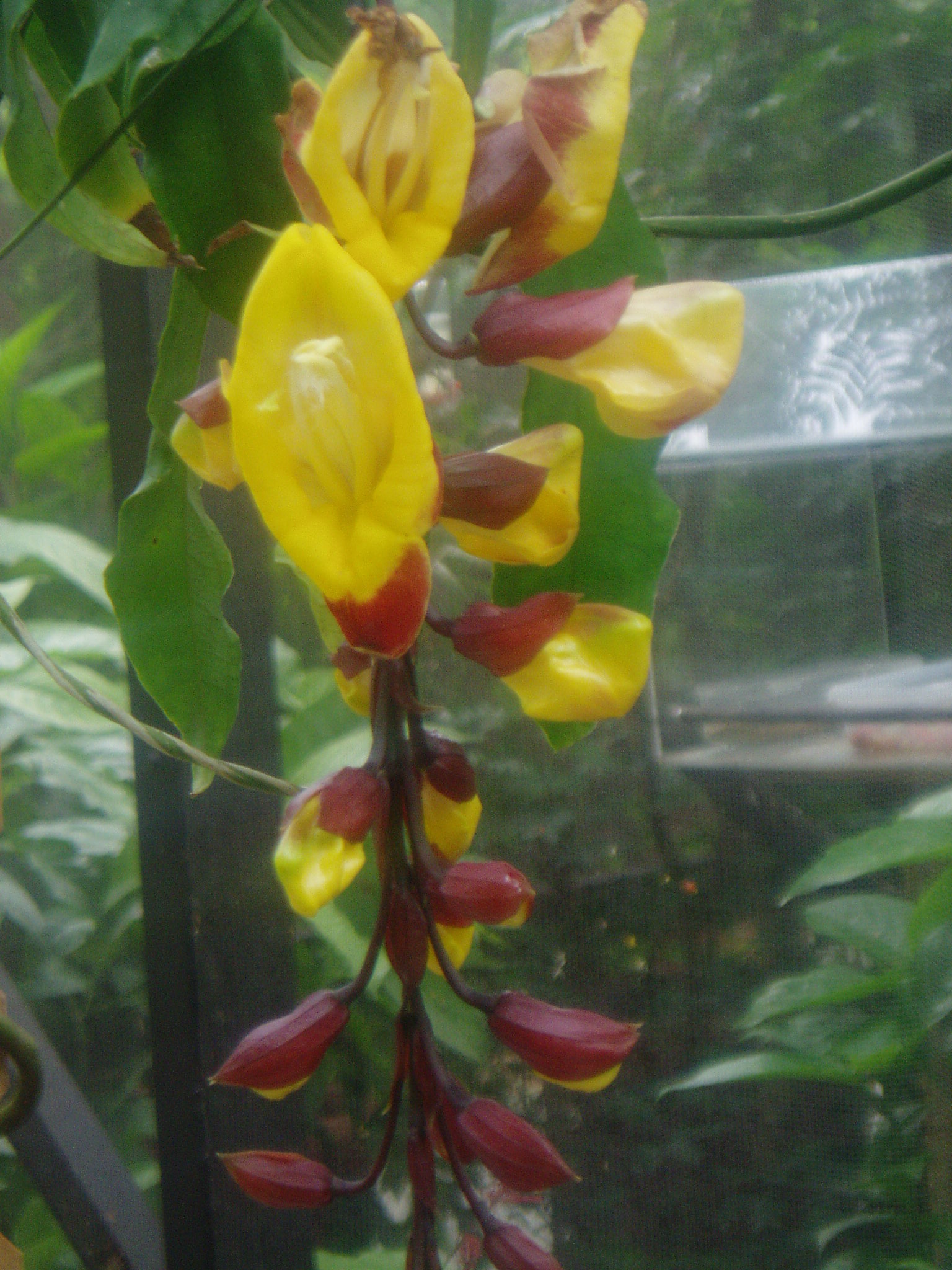 Image taken at Butterfly World Thunbergia mysorensis flowers